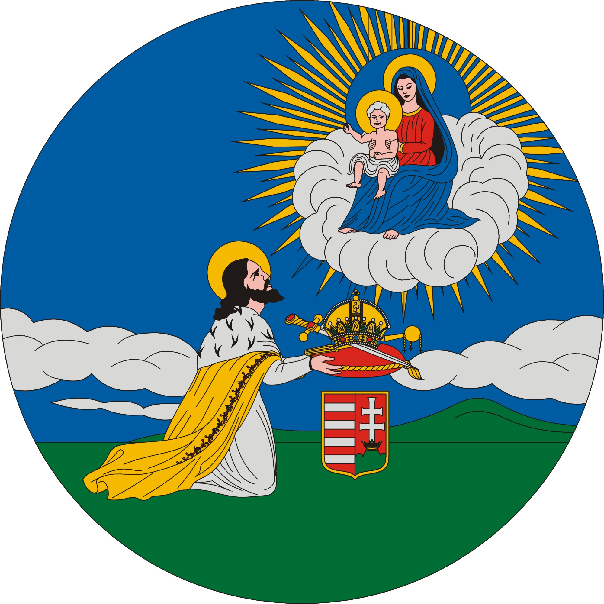 Coat of arms of Fejer, Hungary